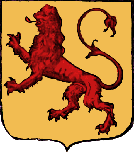 Coat of arms of Alexander the Great - Jérôme de Bara - "Le blason des armoiries", 1628